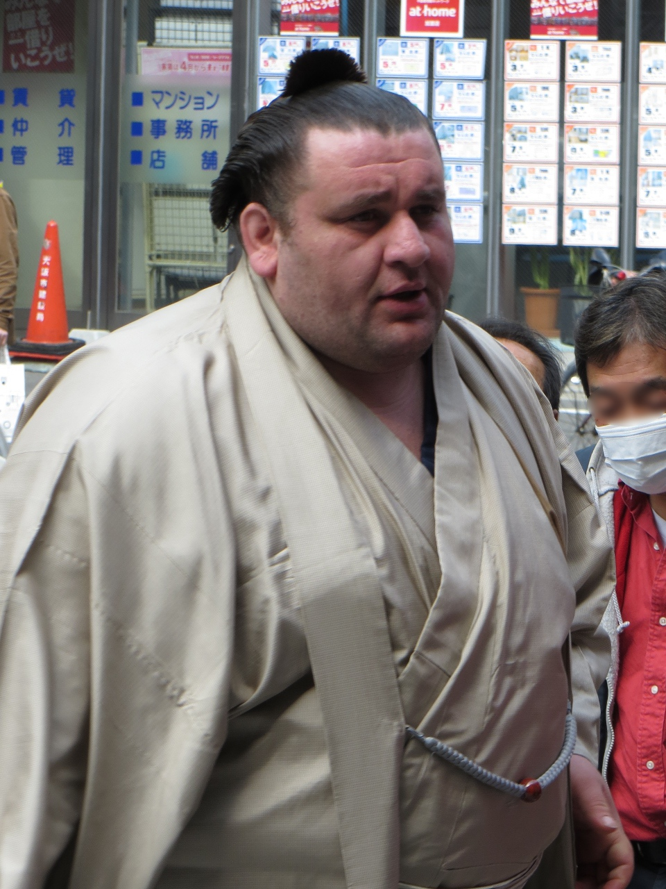 Gagamaru Masaru in Haru (Spring) Basho 2013, Osaka.